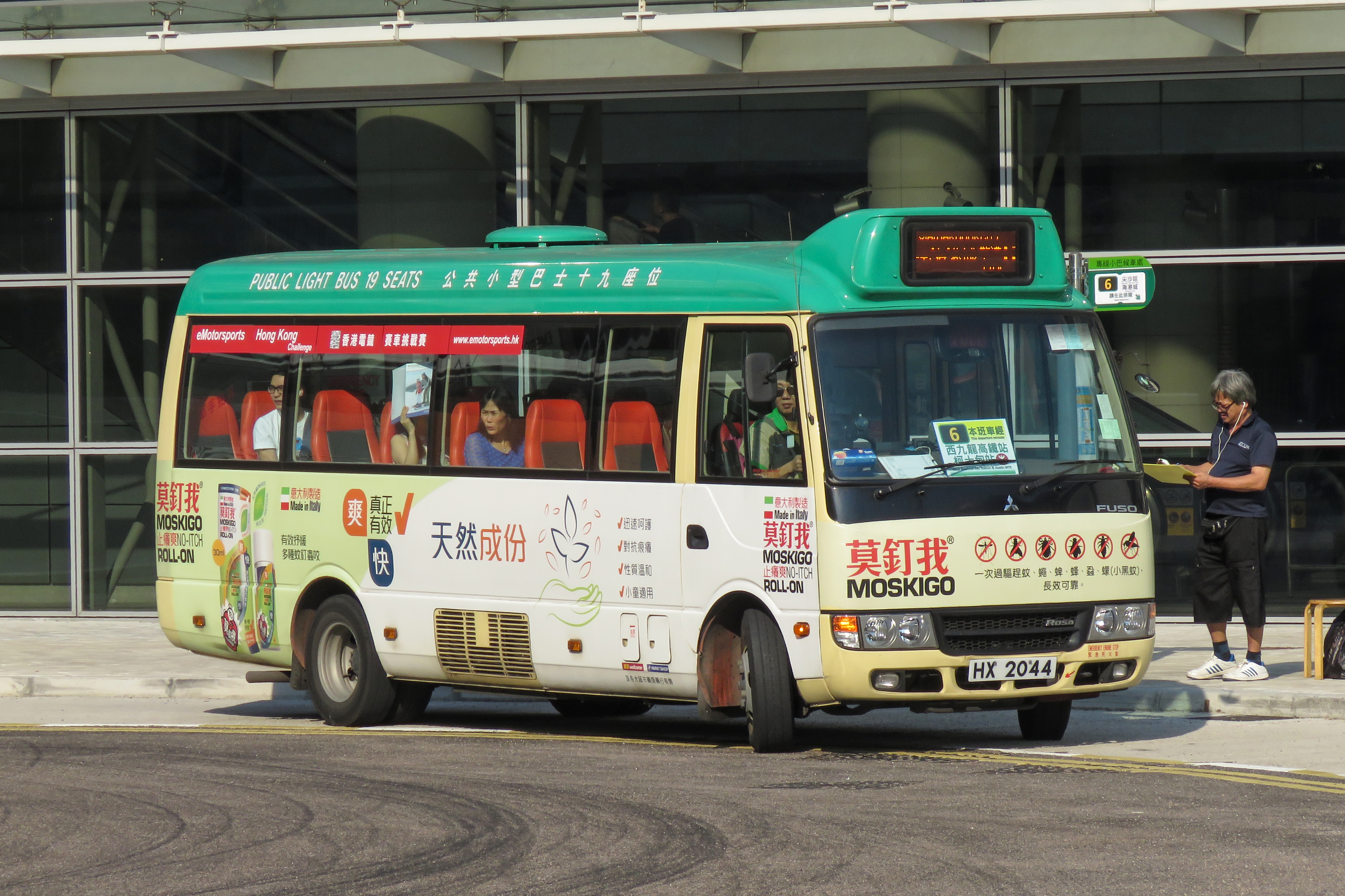 This U-turn at Wui Man Rd witnesses some front-engined fellows with vacant seats - this one has a capacity of 19.